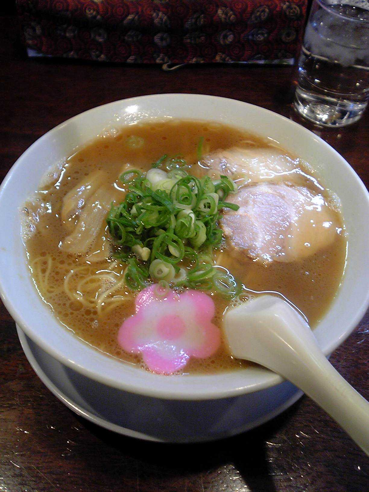 Wakayama Ramen, taken by original uploader on April 15th, 2006.